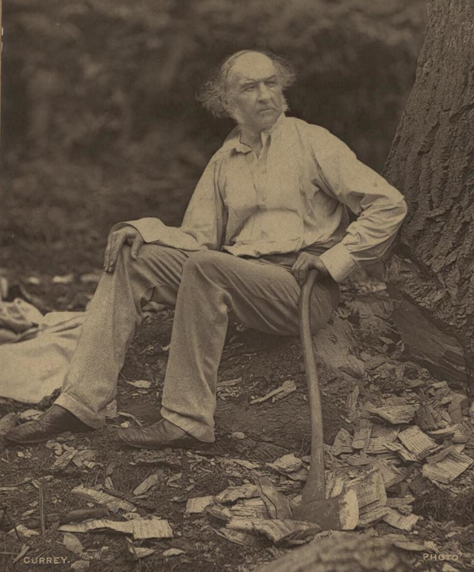 A portrait from the Welsh Portrait Collection at the National Library of Wales. Depicted person: William Ewart Gladstone – British Prime Minister